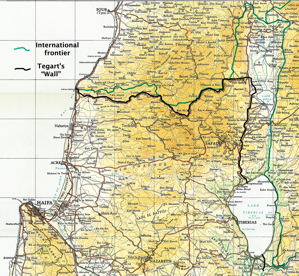 "Tegart's Wall", actually a barbed wire fence, Palestine 1938–1940.